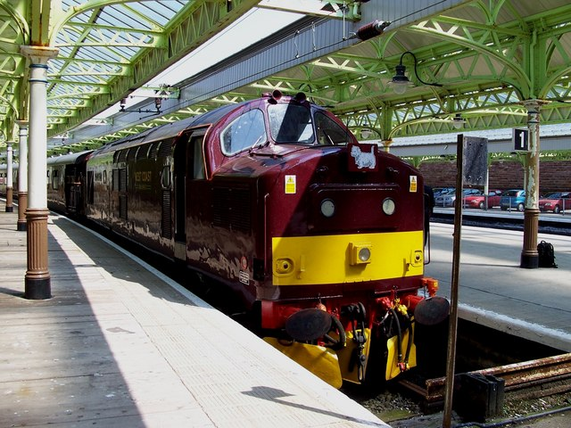 Royal Scotsman At Wemyss Bay. This luxury train is a regular summer visitor to Wemyss Bay. Normally stabled overnight on platform 2, on this occasion the train later reversed out of platform 1 and then back in to platform 2. Passengers embark on a ferry journey from here to Bute to visit "Britain's finest gothic house", 93953